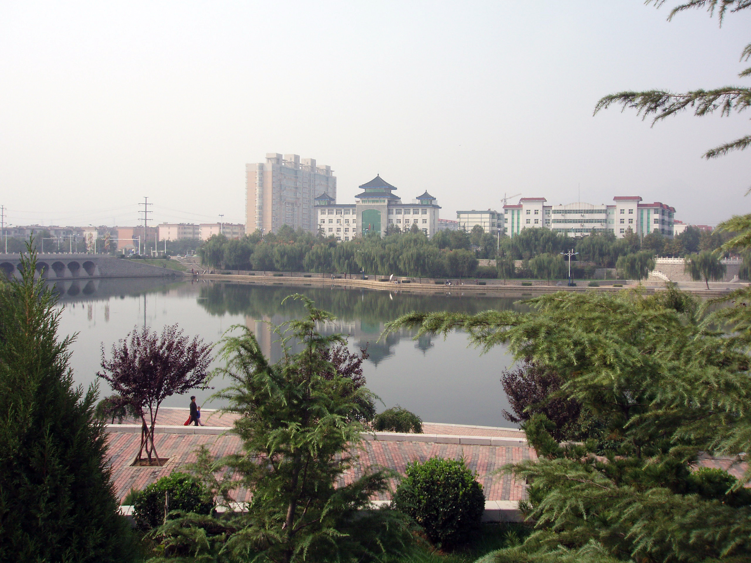 Luquan City (鹿泉市) under Shijiazhuang, China